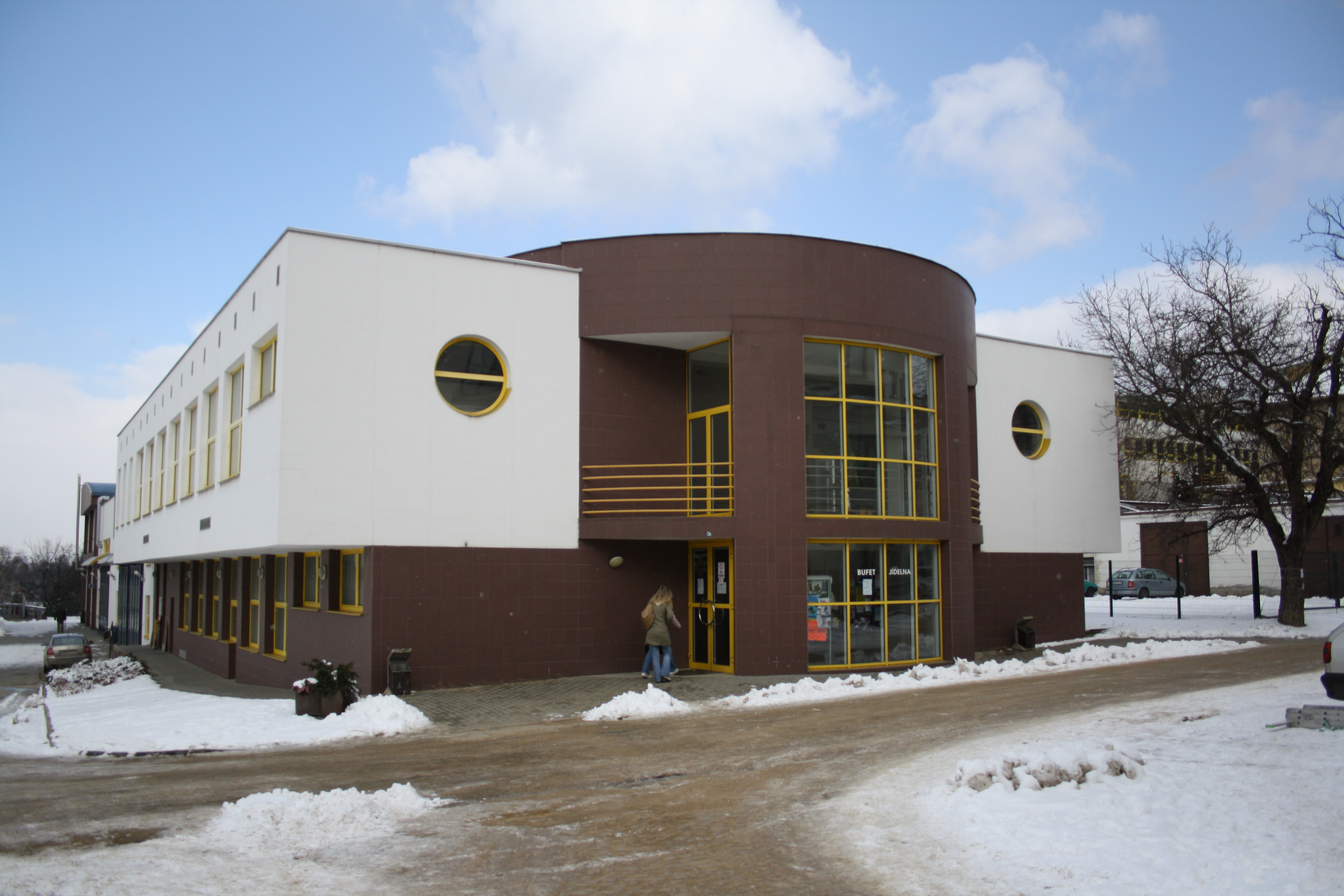 Mensa of Mendel University of Agriculture and Forestry in Brno.